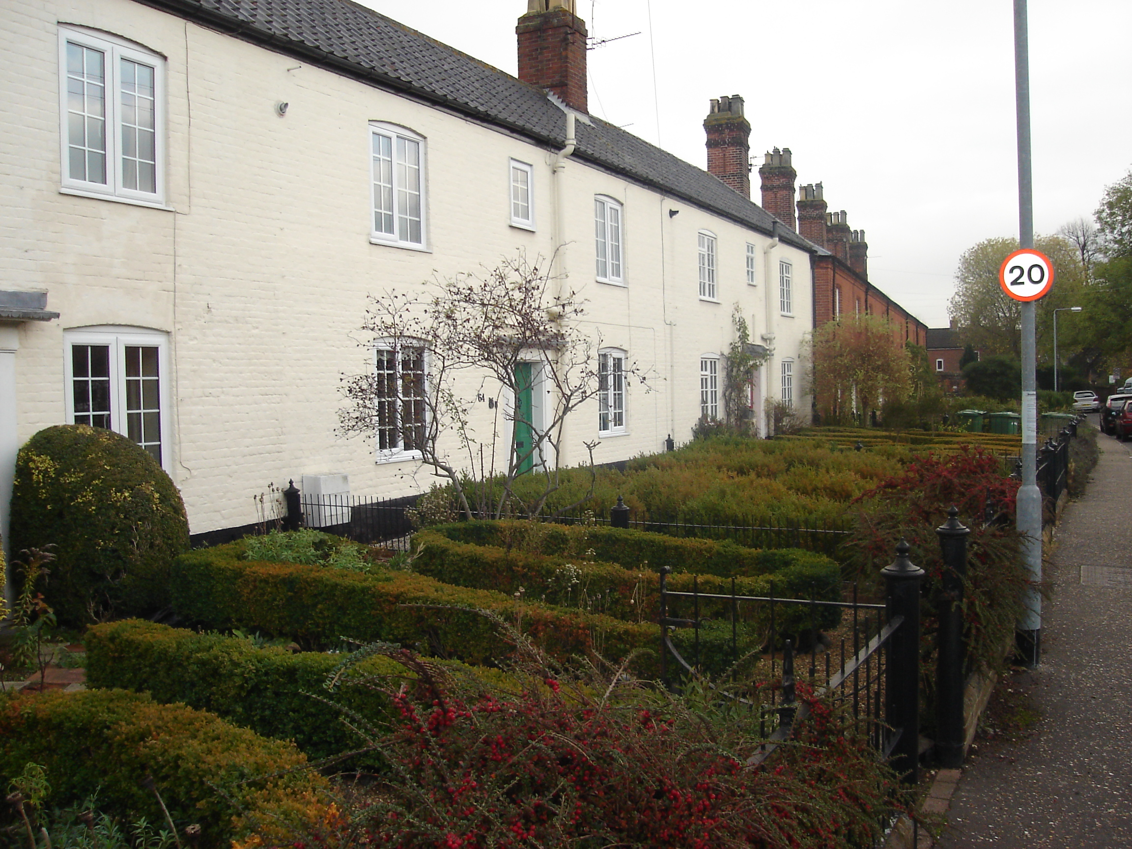 Victorian cottages at Church Street, Old Catton, Norfolk. The front gardens are planted with the shrub Buxus some in a unusual Knot style.